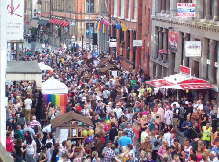 Liverpool Pride at the Gay Quarter